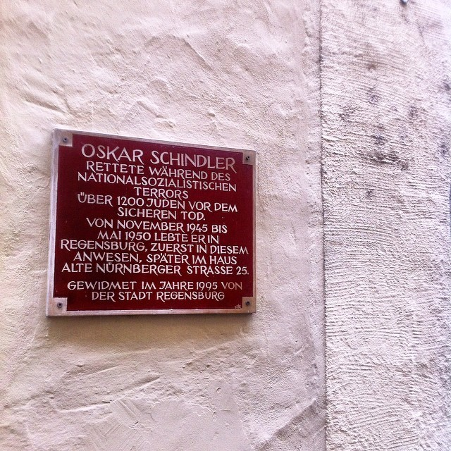 Memorial shield on the house in Old Town Regensburg, Bavaria, where Oskar Schindler lived in 1945-1950